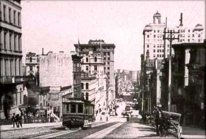 Summary Photo of California Street Cable Railway Company car from 1899. Image found [1] here